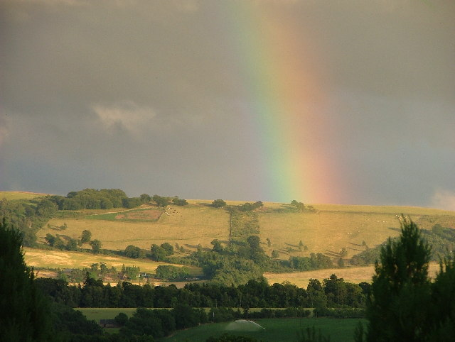 Unclassified road down to Tannadice. Evening rainbow over the Hill of Finavon in the distance.